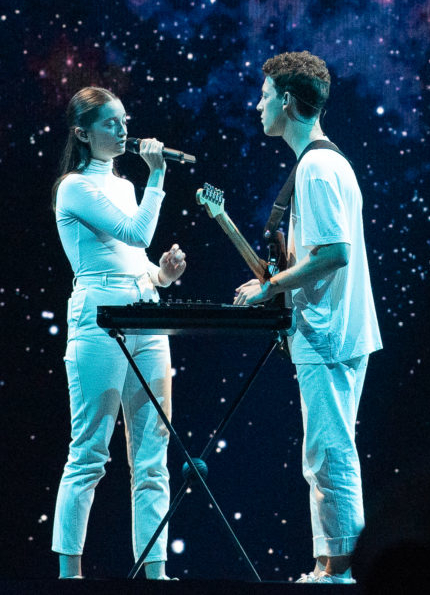 Zala Kralj & Gašper Šantl at the 2019 Eurovision Song Contest Semi-final 1 dress rehearsal